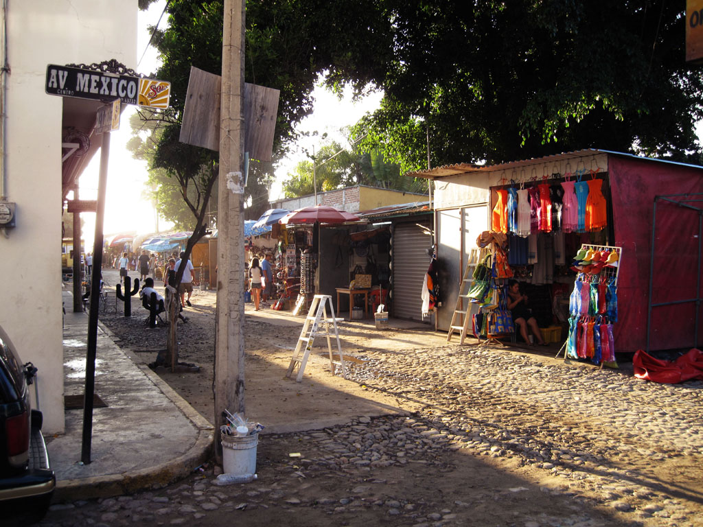 Taken December 29, 2009 by Greg Kullberg.